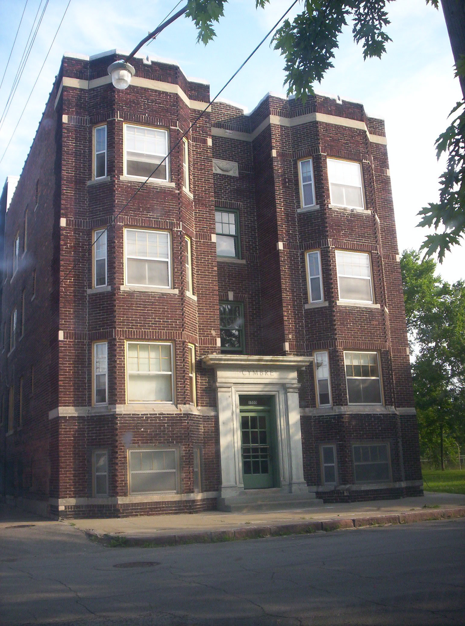 Typical apartment building in the North Corktown neighborhood